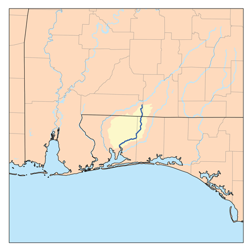 This is a map of the Blackwater River watershed. I, Karl Musser, created it based on USGS data.